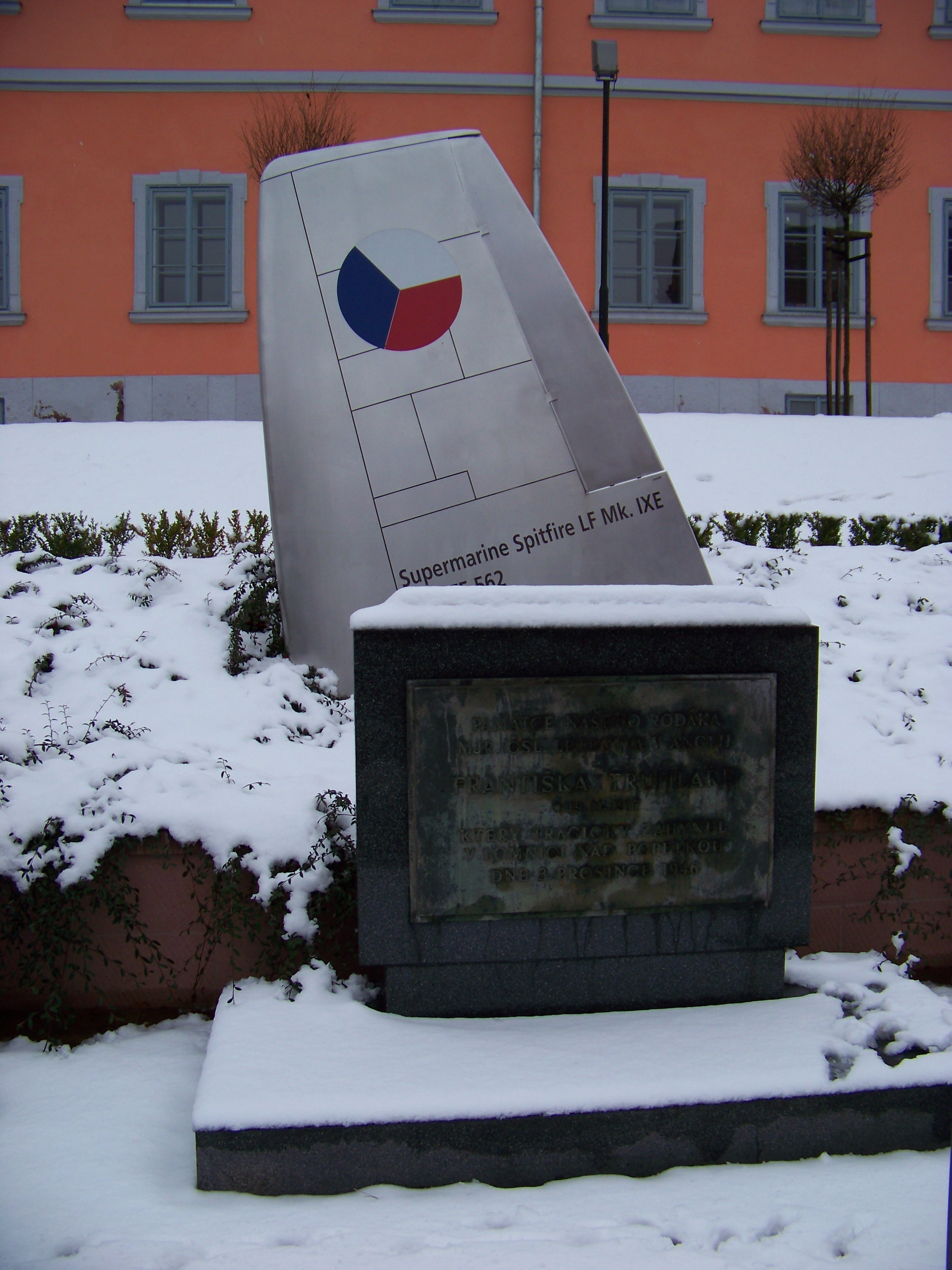 Lomnice nad Popelkou, Semily District, Liberec Region, Czech Republic. Plk. Truhláře, a monuments to František Truhlář.